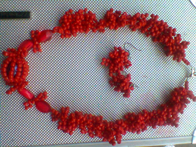 A blend of beaded beads and bushy effect. This is an image of Cultural Fashion or Adornment from Nigeria